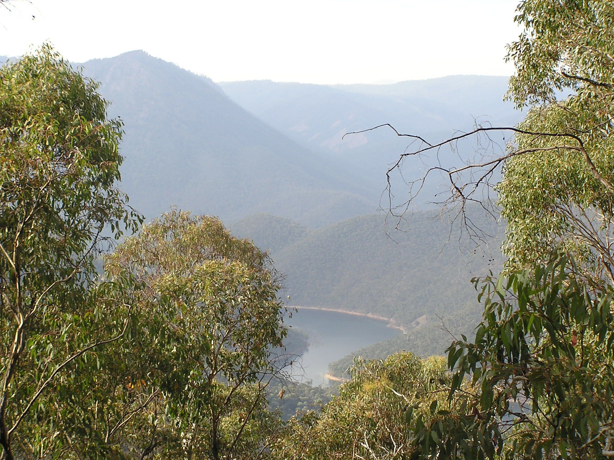 Snowy Mountains Scheme: Talbingo Dam (April 2005) This work has been released into the public domain by its author, AYArktos. This applies worldwide. In some countries this may not be legally possible; if so: AYArktos grants anyone the right to use this work for any purpose, without any conditions, unless such conditions are required by law.